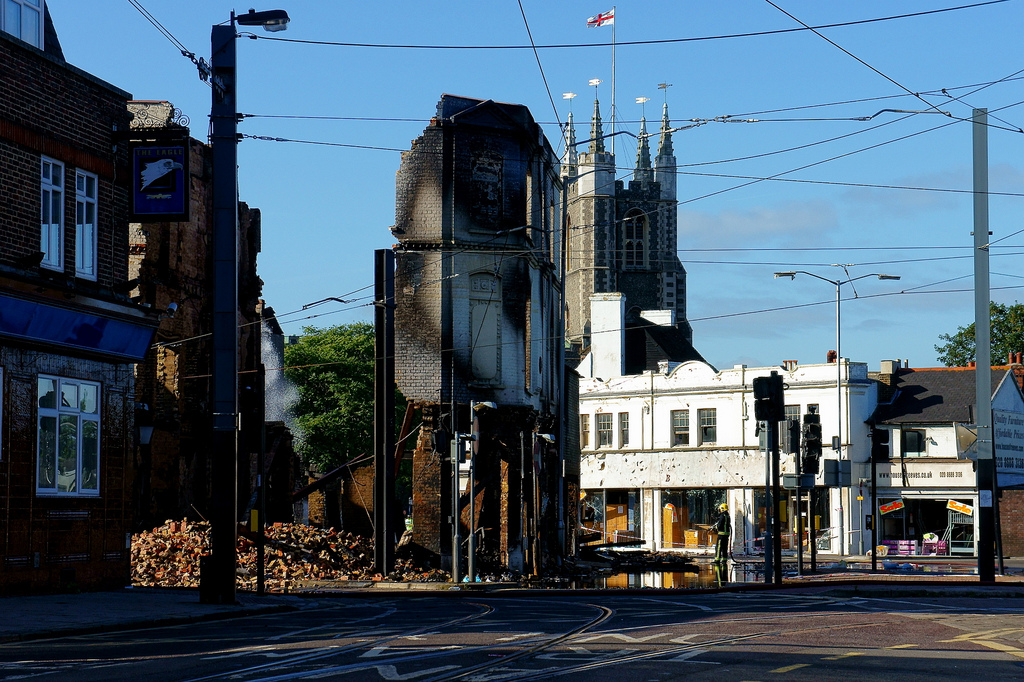 Reeves Corner, and the ruins of the Reeves family furniture business.